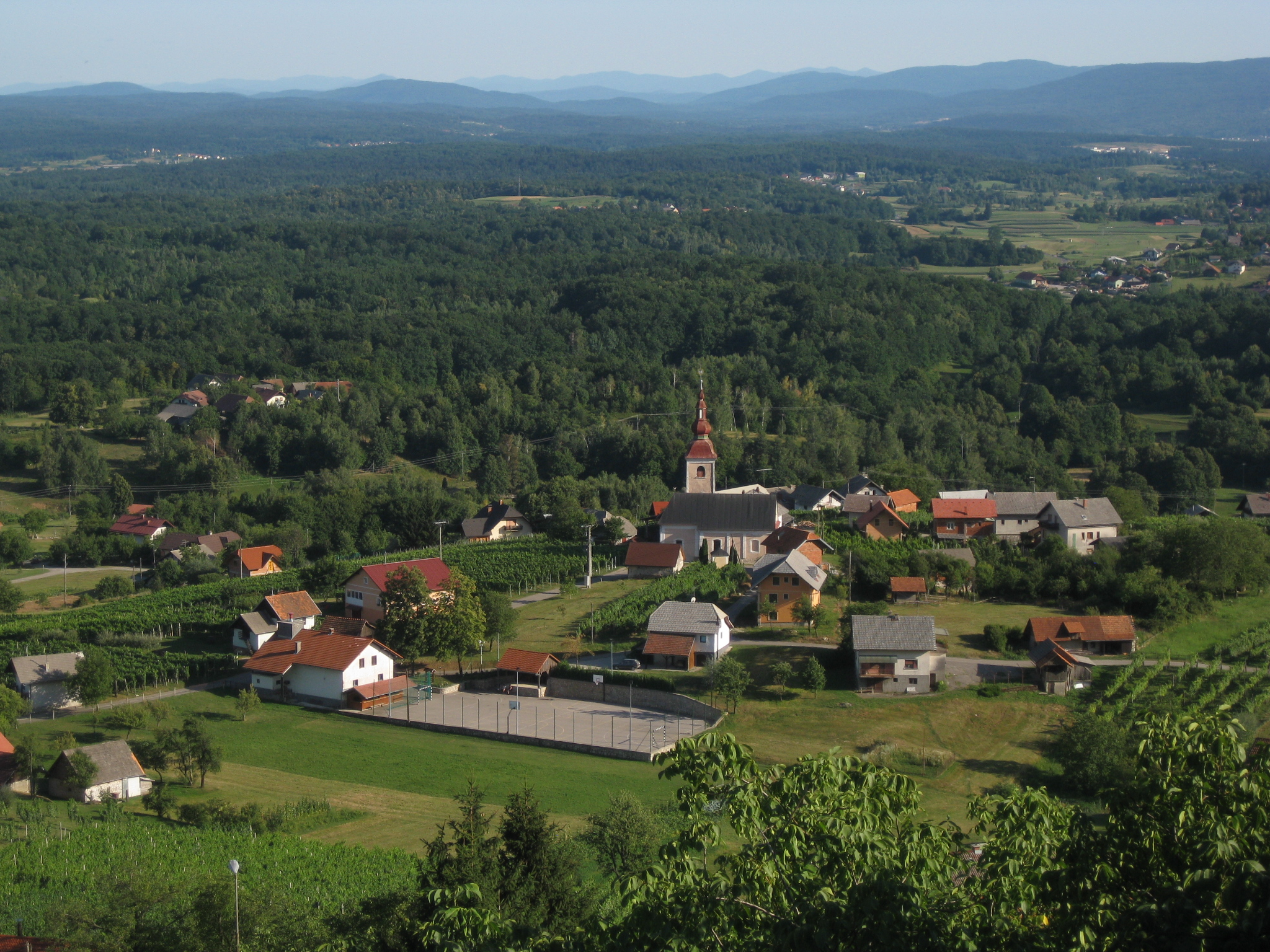 Sadinja Vas, a hamlet of Semič, a village in southeastern Slovenia - view of Bela Krajina (north-western part).